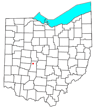 Locator map of the unincorporated community of Plumwood in Madison County, Ohio, United States.